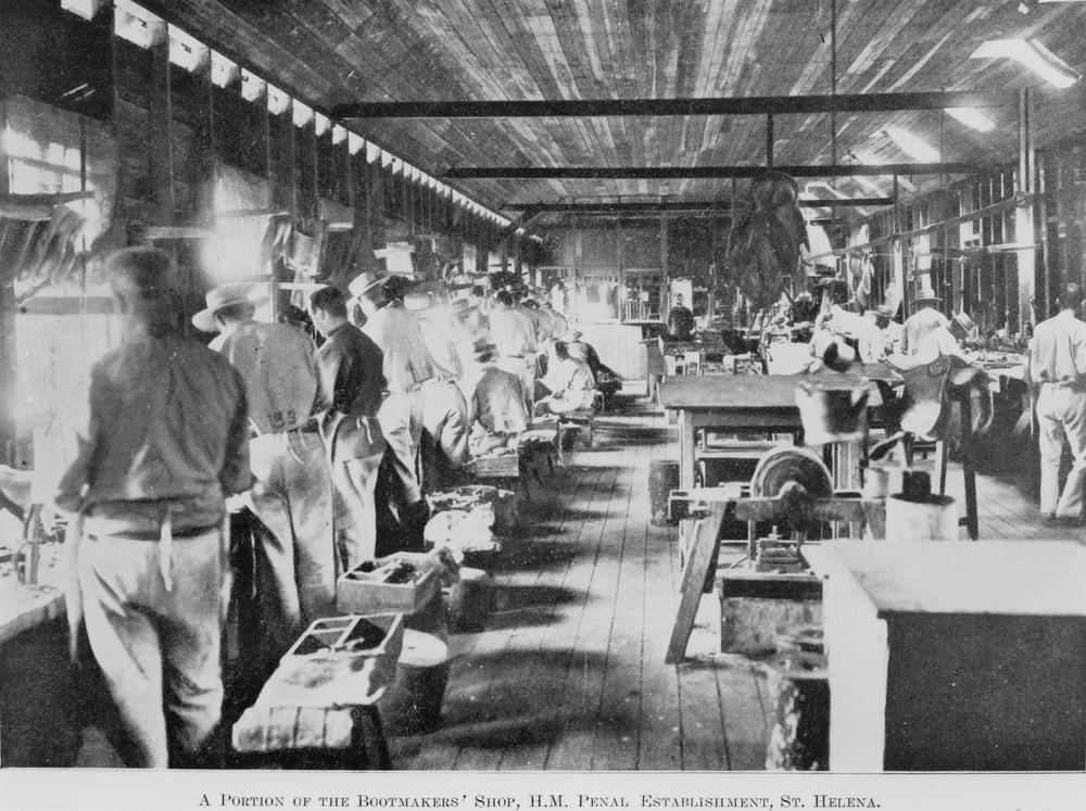 Prisoners making boots on St Helena Island, 1911 Caption below the photograph reads: 'A portion of the bootmaker's shop, H. M. Penal Establishment, St. Helena. (Description supplied with photograph.).